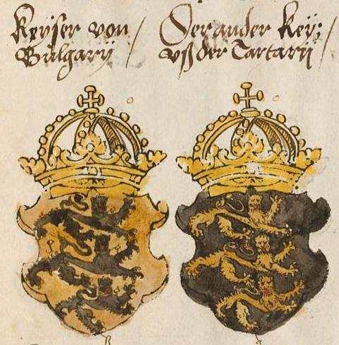 coat of arms of bulgarian rulesrs Fruzin and Konstantin II Asen